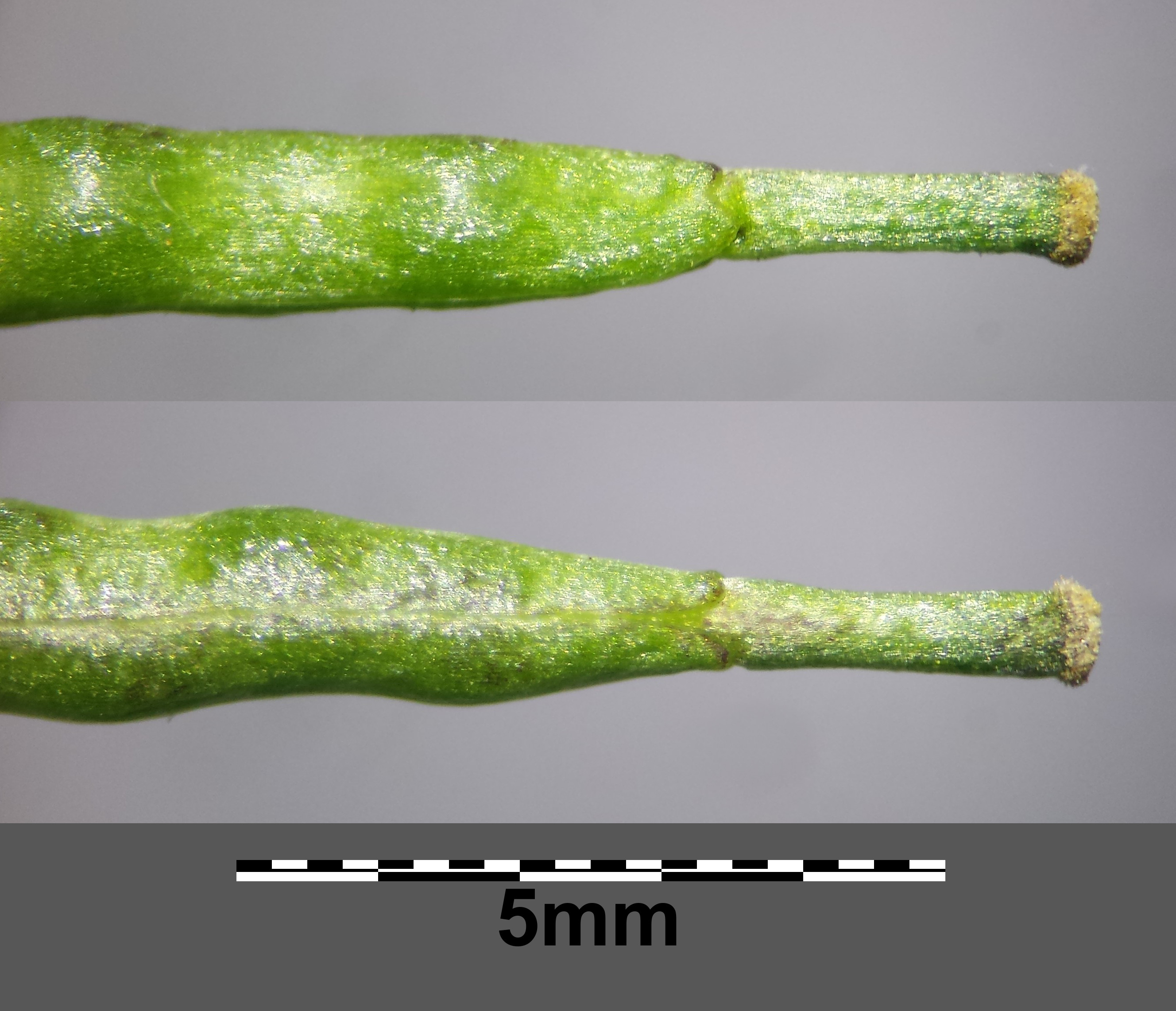 Tip of silique Taxonym: Erucastrum gallicum ss Fischer et al. EfÖLS 2008 ISBN 978-3-85474-187-9 Location: Lange Leiten-Zeiselberg near Herzogbirbaum, district Korneuburg, Lower Austria - ca. 300 m a.s.l. Habitat: border of a field